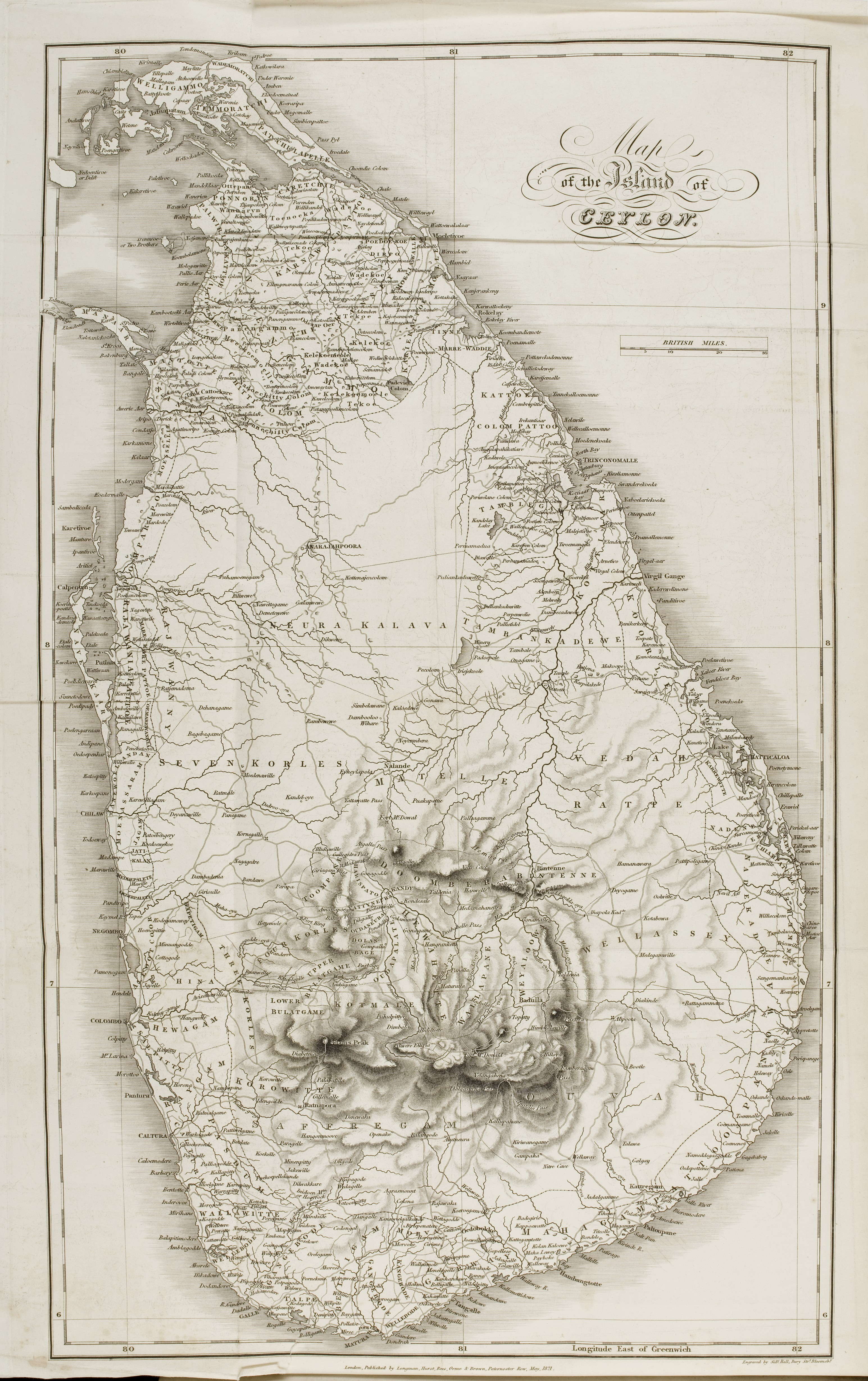 Map of the island of Ceylon, now Sri Lanka Rare Books Keywords: Natural History; Ethnology